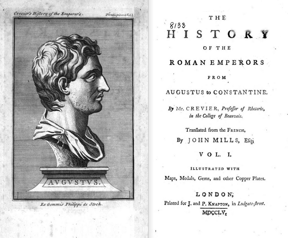 The History of the Roman Emperors from Augustus to Constantine, Vol. 1, title plate and title page, 1755